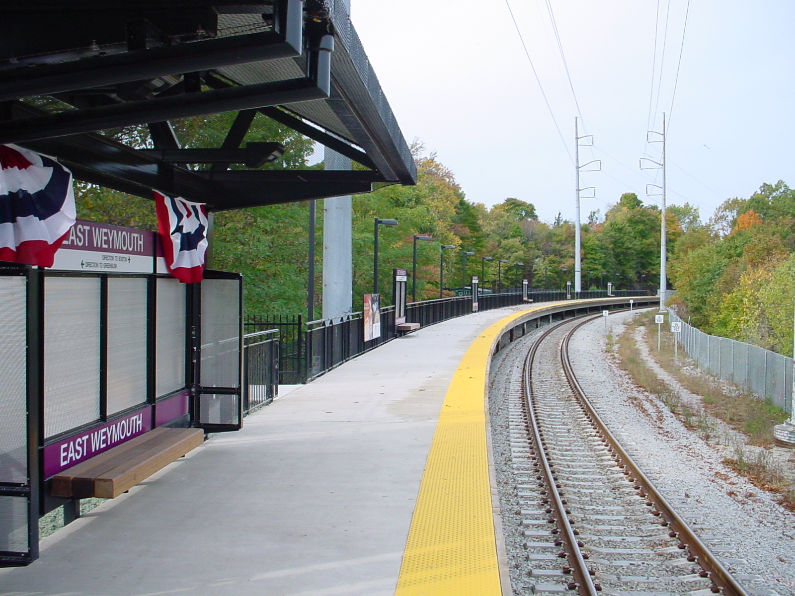 Looking inbound at East Weymouth station on the MBTA's Greenbush Line in November 2007